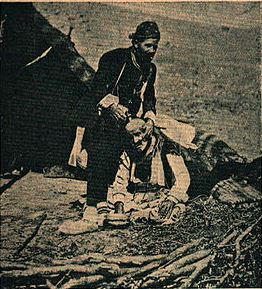 Hristo Silyanov